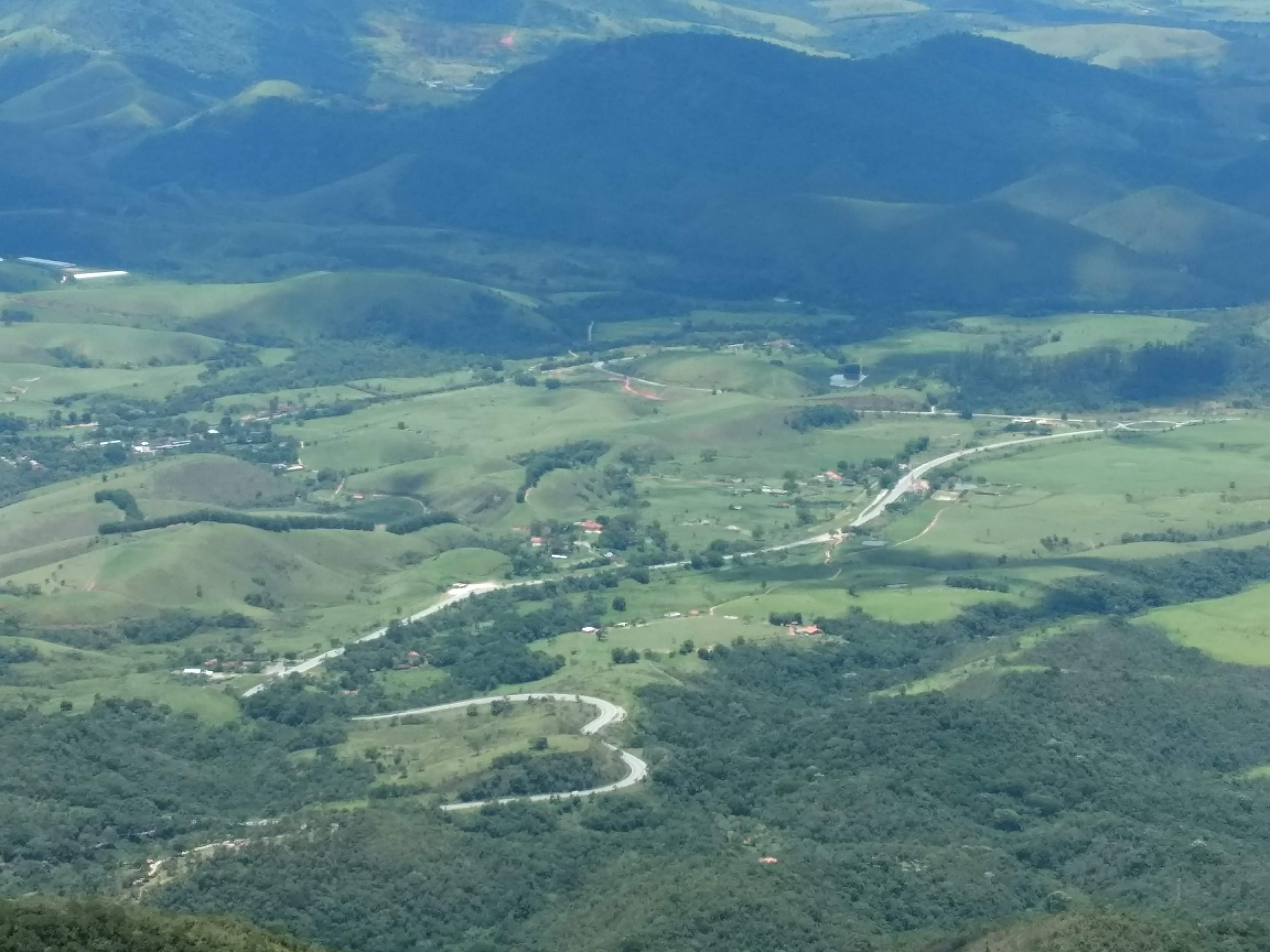 Road SP-123 in Pindamonhangaba, São Paulo, Brazil, seen from the summit of Pico Agudo in Santo Antônio do Pinhal